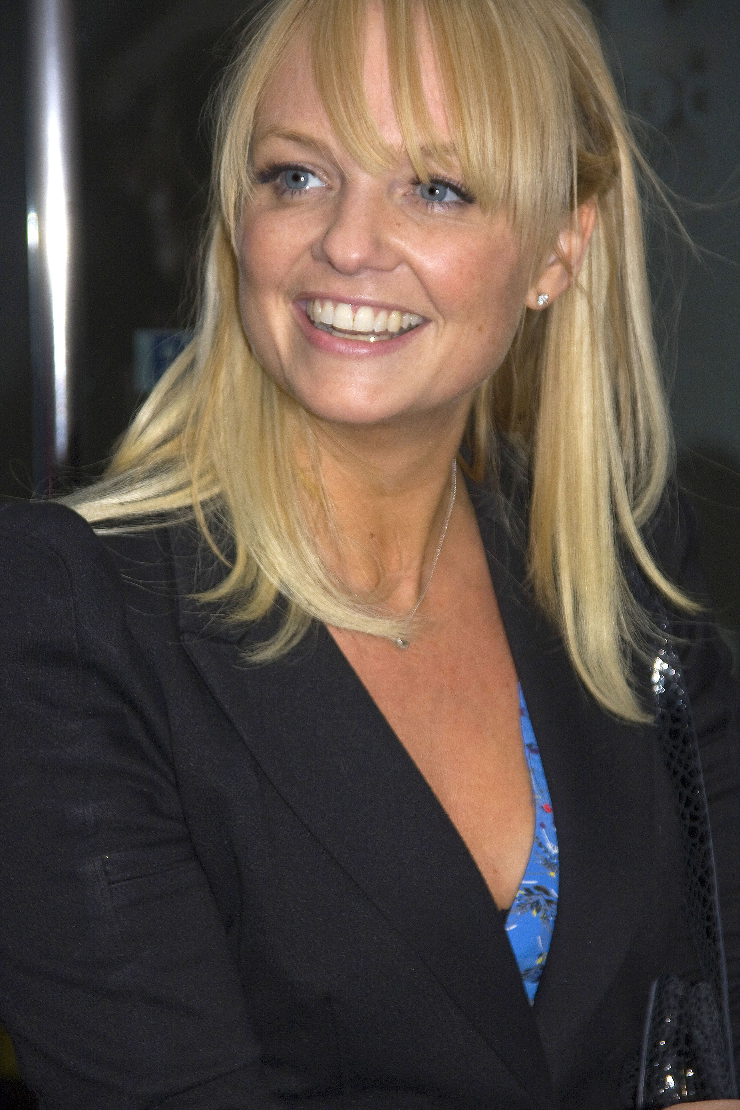 Emma Bunton at the Viva Glam MAC AIDS FUND & Heart FM Charity